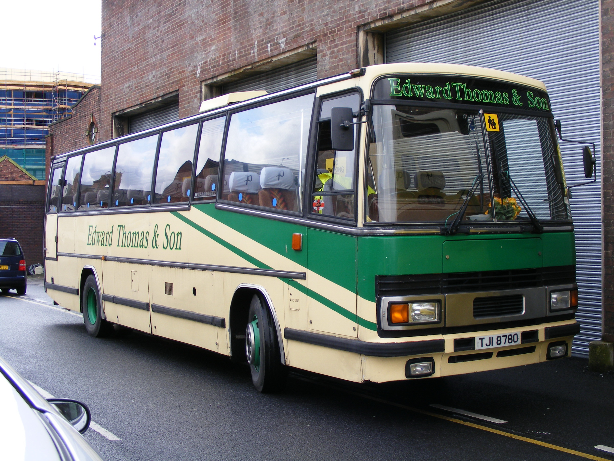 Edward Thomas & Son coaches TJI 8780 (originally operated by Southern Vectis as WDL 310Y), a Leyland Tiger/Plaxton Paramount 3200, seen at St Helens. It has since been repained into its original National Holidays livery, as seen here.